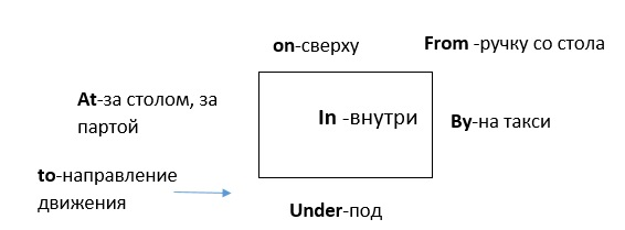 English grammar in russian